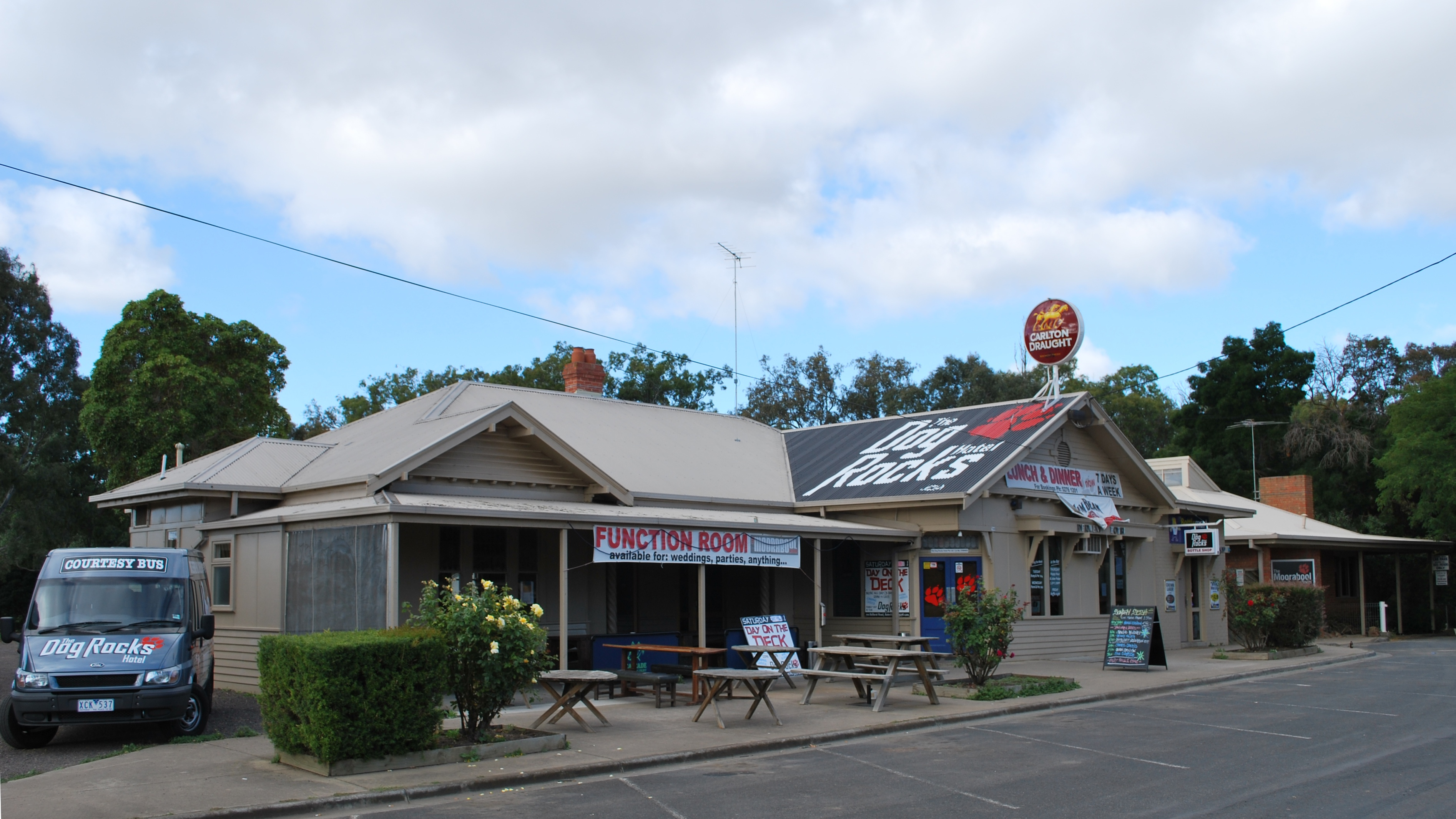 Derwent Hotel at Batesford, Victoria, now trading as the Dog Rocks Hotel.